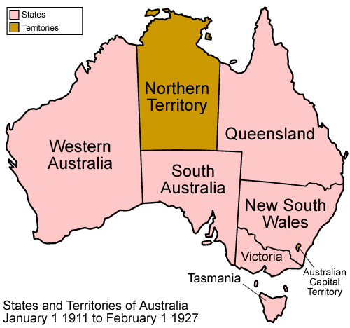 Map of the states of Australia as they were between 1911 and 1927. On January 1, 1911, Northern Territory was split from South Australia, and the Australian Capital Territory was created inside New South Wales. On February 1 1927, Northern Territory was split into the territories of North Australia and Central Australia. Made by User:Golbez.